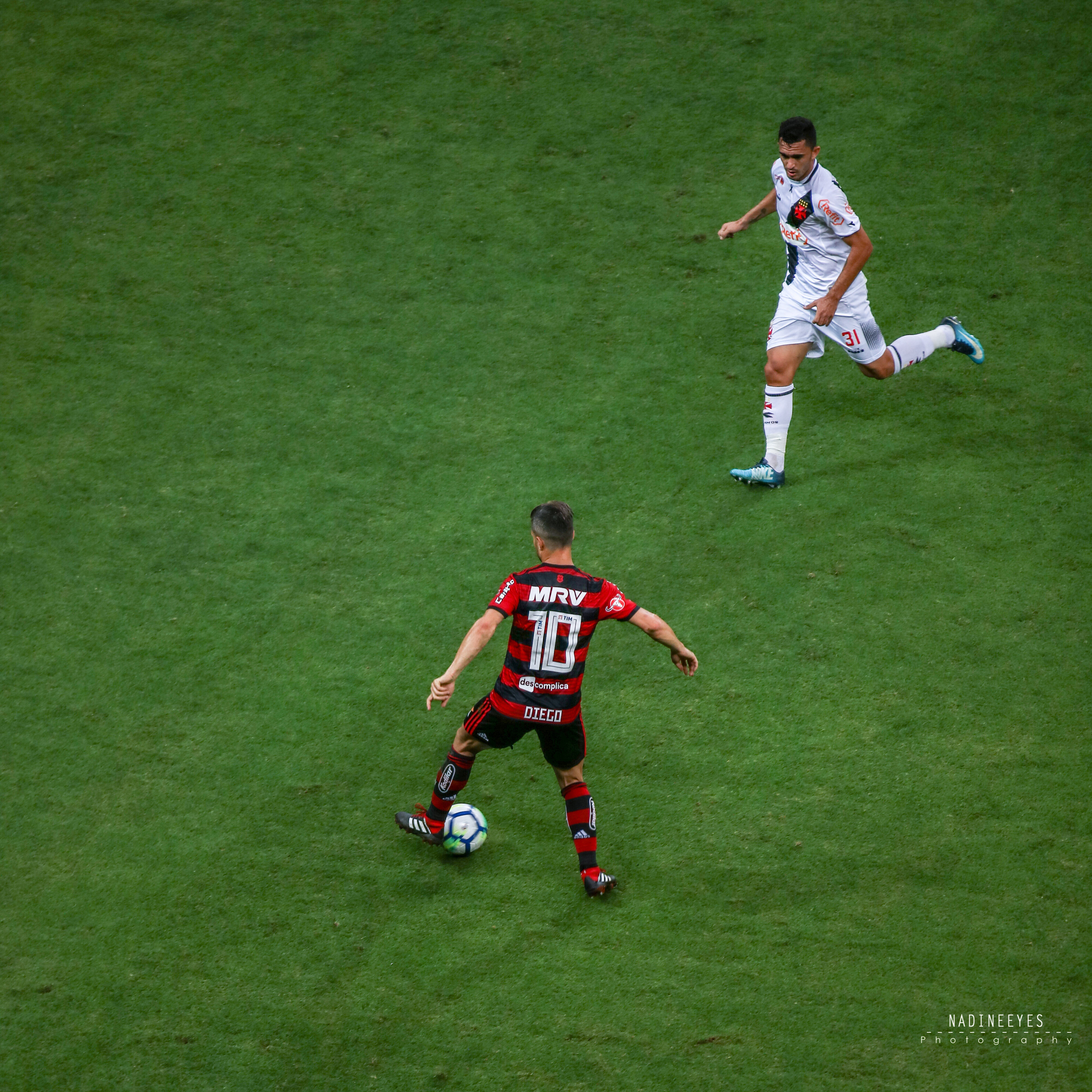 2018 Campeonato Brasileiro Série A – Flamengo v Vasco, 15 September 2018